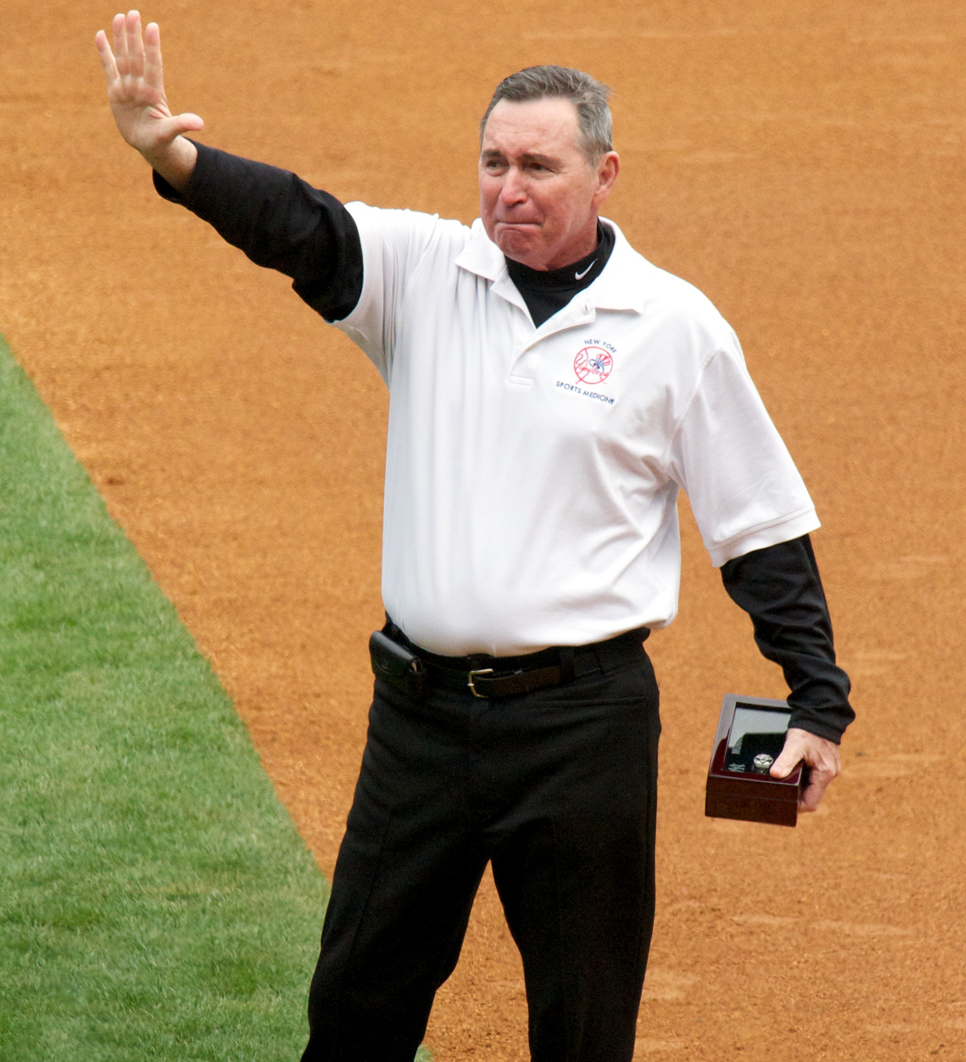 An emotional longtime New York Yankees trainer Gene Monahan receiving his 2009 World Series ring at Yankee Stadium, April 2010. Photo courtesy of chris.ptacek, via Flickr. This file has been extracted from another file: Gene Monahan 2010.jpg